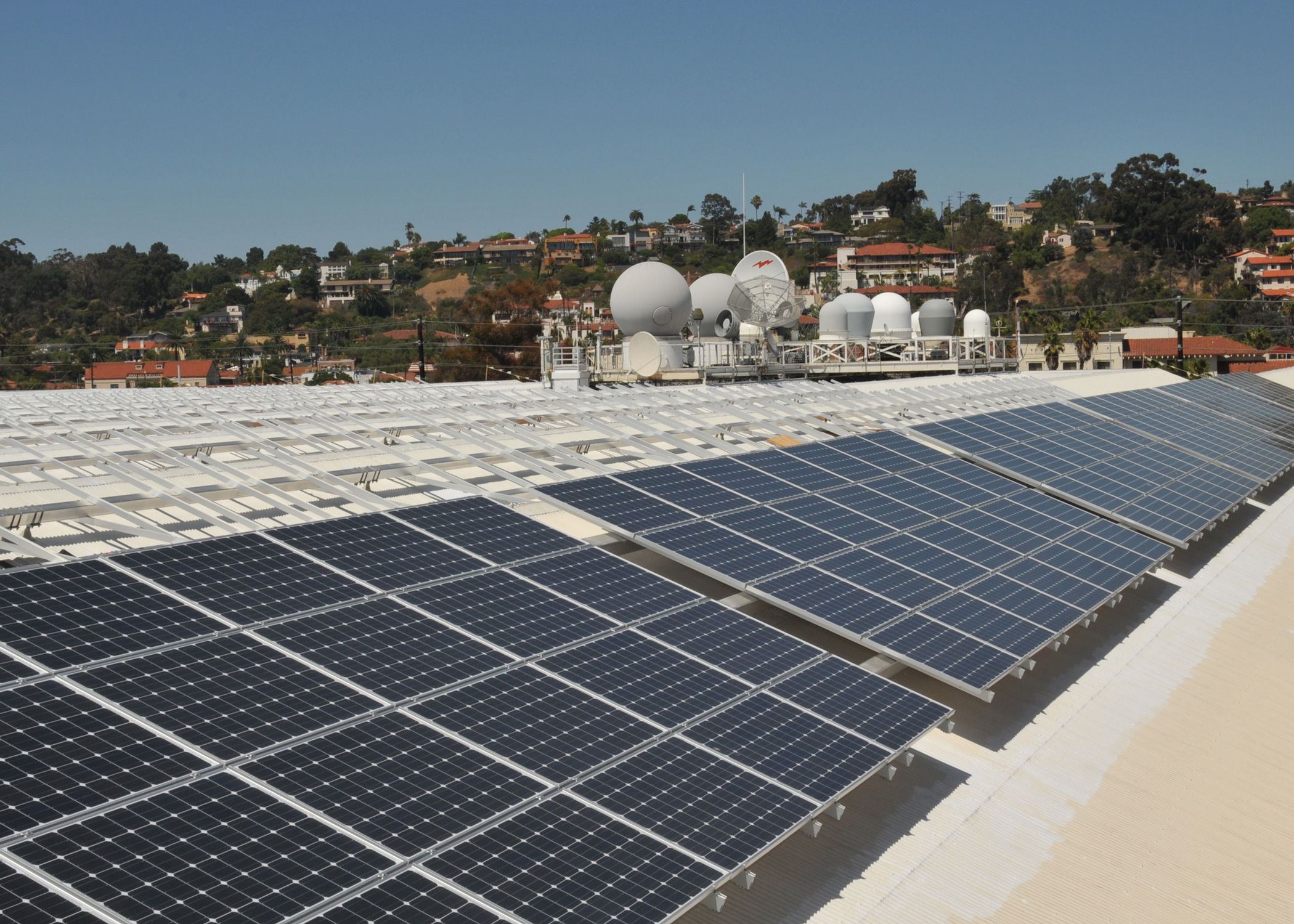 SAN DIEGO (Aug. 3, 2011) A view of solar panels recently installed on the roof of Space and Naval Warfare Systems Command Headquarters, Old Town Complex. The rooftop photovoltaic installation supports the Department of Defense's goal of increasing renewable energy sources to 25 percent of all energy consumed by the year 2025. (U.S. Navy photo by Rick Naystatt/Released)